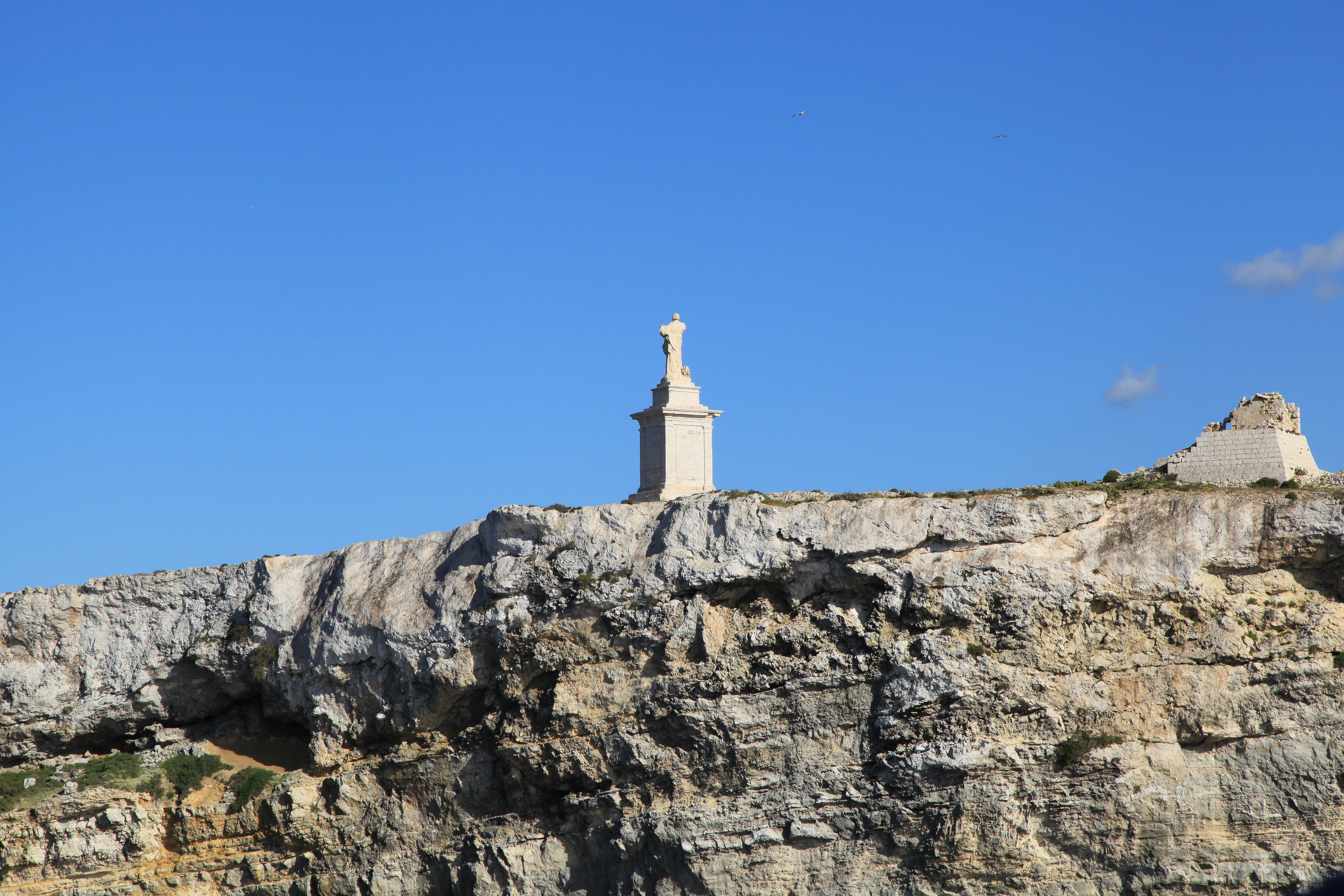 View from the Keppel (IMO 8434415) to the St Paul's Islands in Mellieħa, Malta